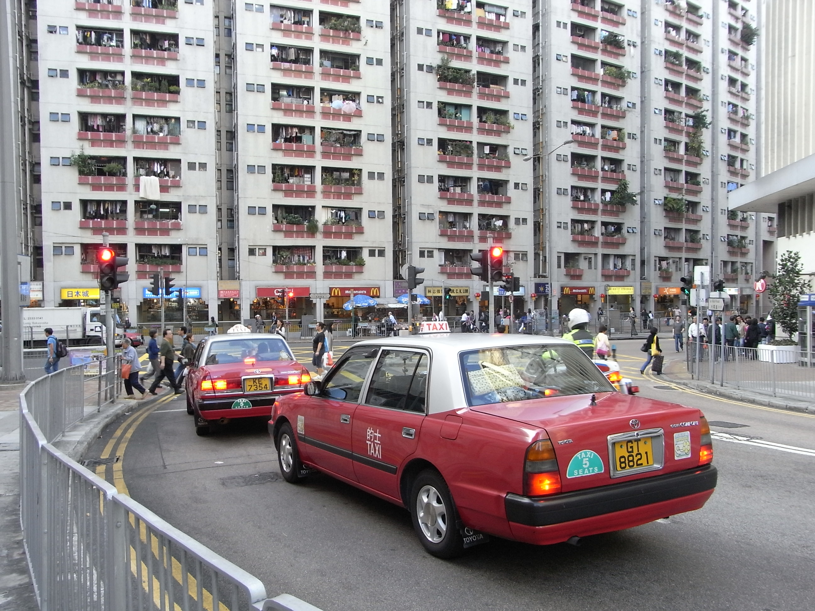 紅磡 大環道 近馬頭圍道 家維邨